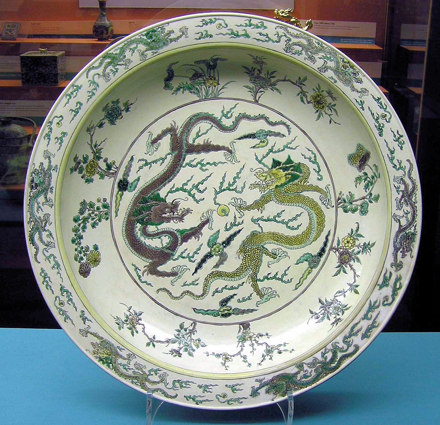 Dish showing battle between dragons, in Bristol City Museum, Bristol, England. Porcelain, slip glaze. Made in the Kangxi reign in China, 1662 to 1722.